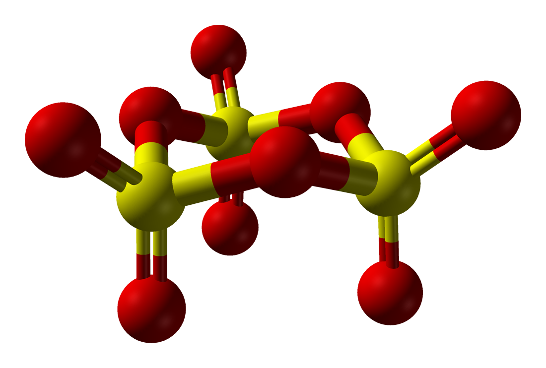 Ball-and-stick model of the sulfur trioxide trimer, (SO3)3, i.e. S3O9, from the crystal structure. X-ray crystallographic data from Acta Cryst. (1967) 22, 48-51. Model constructed in CrystalMaker 8.1. Image generated in Accelrys DS Visualizer.